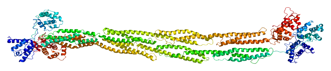 Structure of the ACTN1 protein. Based on PyMOL rendering of PDB 1sjj.